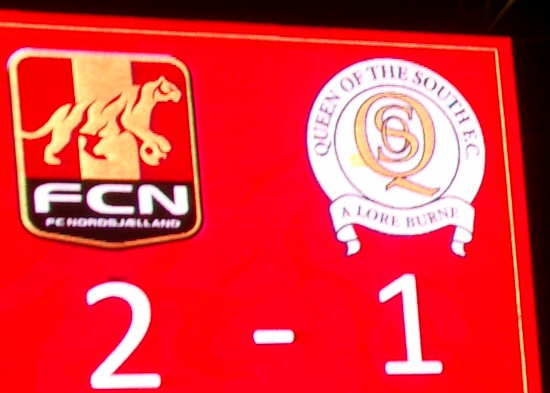 QoS UEFA Cup scoreboard at full time in Farum